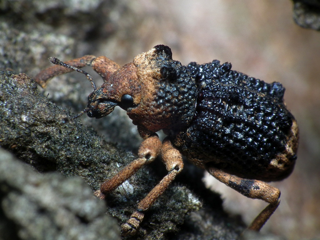 Black Brown Weevil (Aades cultratus), about 10mm long, in Brisbane, Queensland, Australia